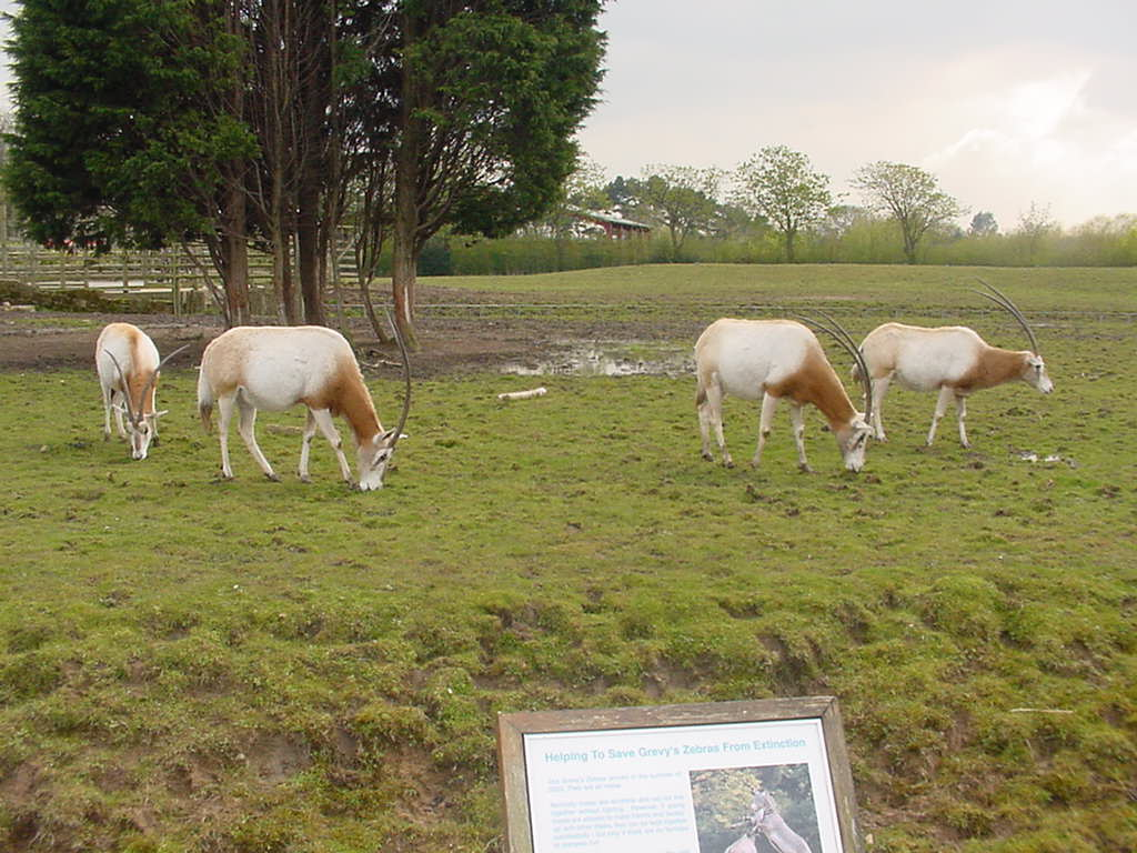 Scimitar-horned oryxes at Chester Zoo